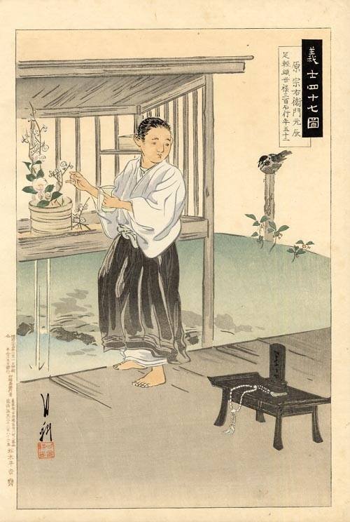 Ronin are masterless samurai. Chushingura is the true story of 47 samurai who became masterless in 1701, after their lord had been forced to commit ritual suicide (seppuku) for assaulting a court official who had insulted him. They avenged him by killing the court official after patiently planning for over a year. They were themselves then forced to commit seppuku.